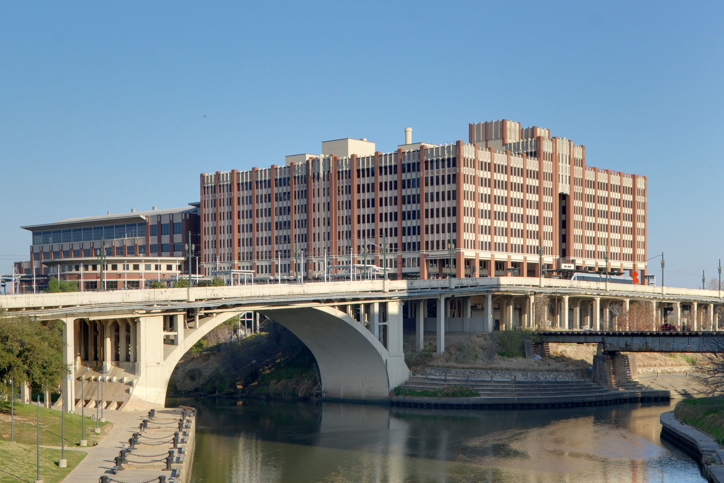 The Merchants and Manufacturers Building at 1 Main St., Houston (Texas, USA) is listed in the National Register of Historic Places, United States Department of the Interior.